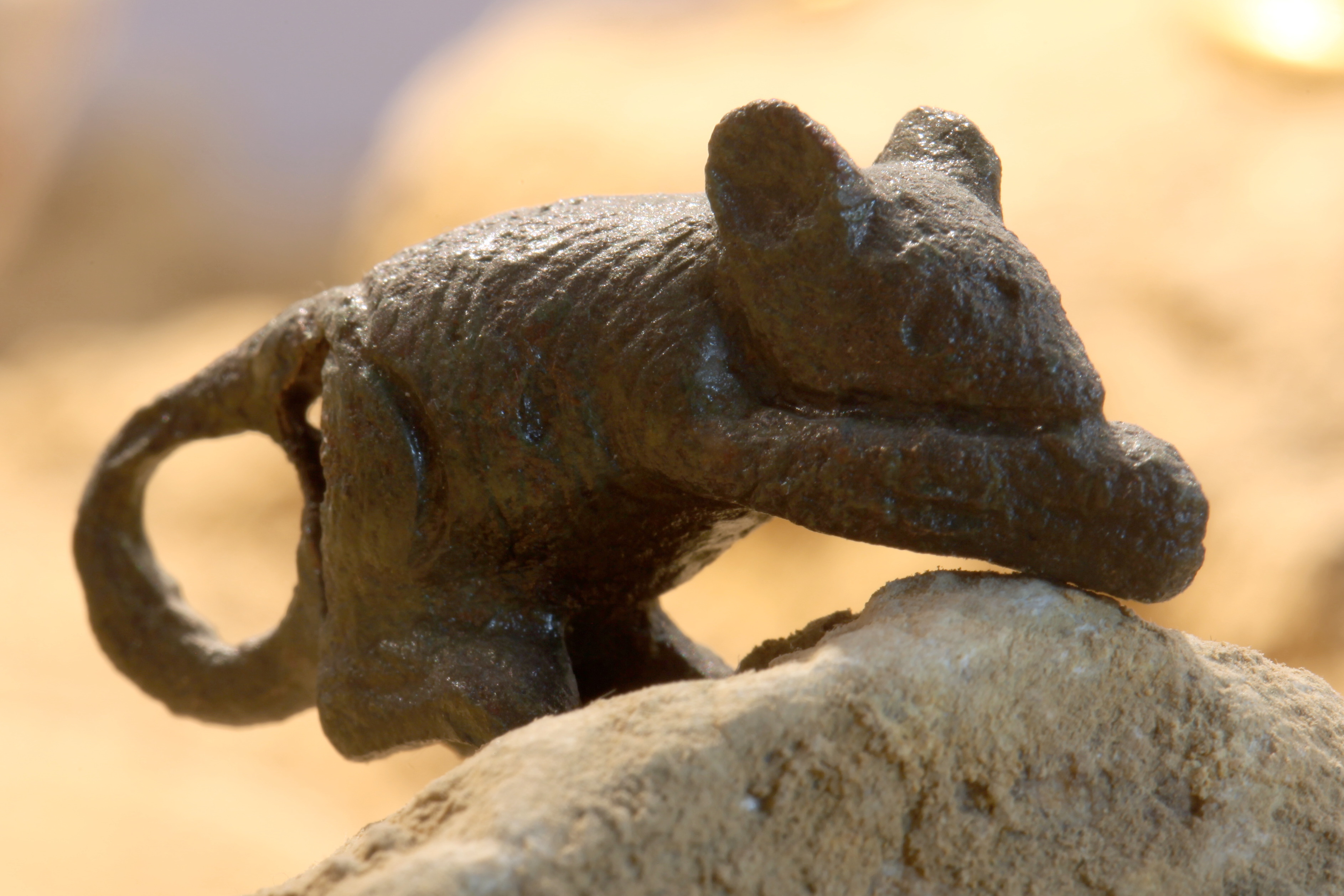 Bronze mouse pendant. On display at Vidy Roman Museum